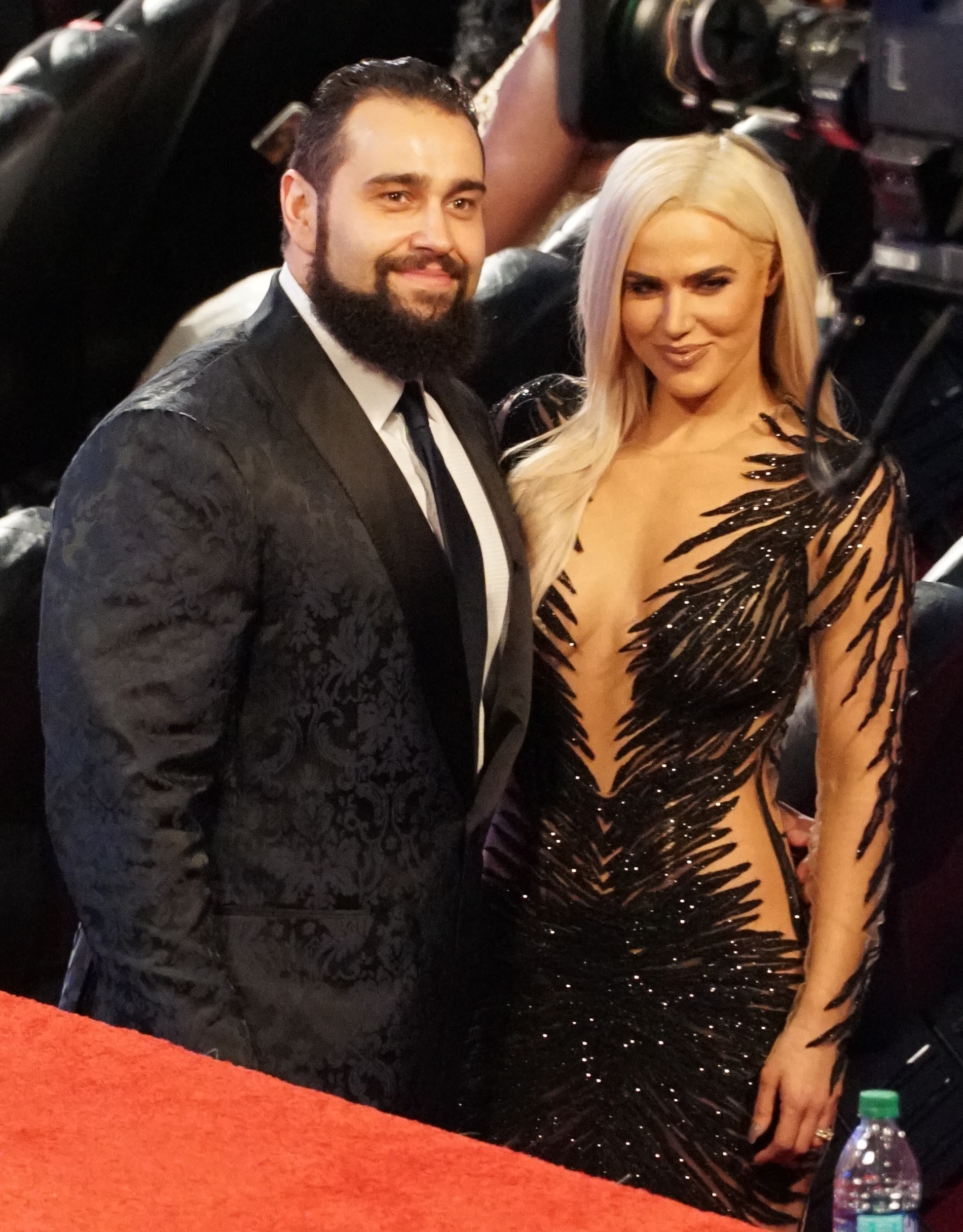 Rusev and Lana pose at the WWE Hall of Fame ceremony in New Orleans, LA NOLA 2018 - WWE HOF 2018 WWE Hall of Fame (2018) was the event that featured the introduction of the 19th class to the WWE Hall of Fame. The event was produced by WWE on April 6, 2018 from the Smoothie King Center in New Orleans, Louisiana. The event took place the same weekend as WrestleMania 34. The event aired live on the WWE Network, and was hosted by Jerry Lawler. ( Deux semaines a Nola pour la ville et pour WWE Wrestlemania XXXIV Two weeks Nola for the city and for WWE Wrestlemania XXXIV )